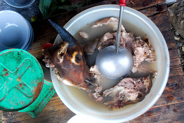 Hmong meal photographed at Bac Ha Sunday market